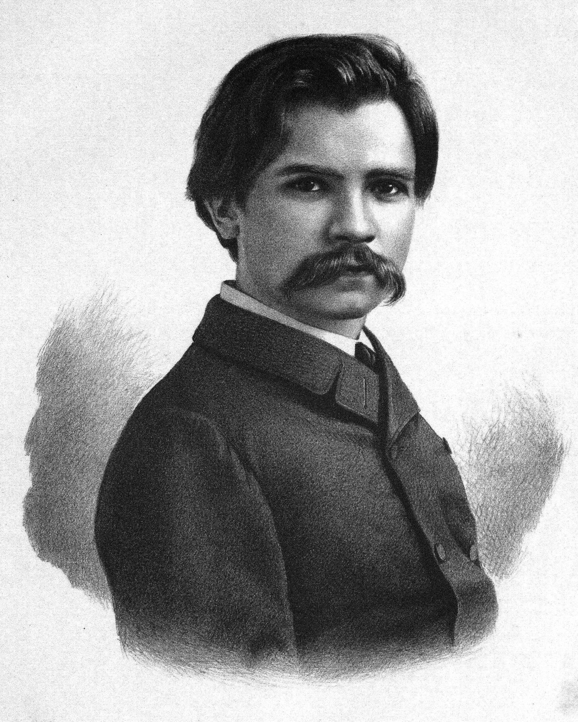 Eugen Francis Charles d'Albert (10 April 1864 – 3 March 1932) was a Scottish-born German pianist and composer.